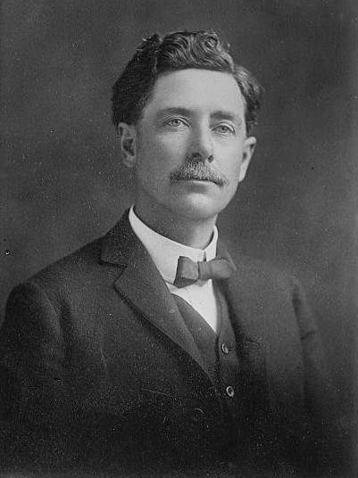 Prof. Lewis L. Dyche (1857-1915), American zoologist